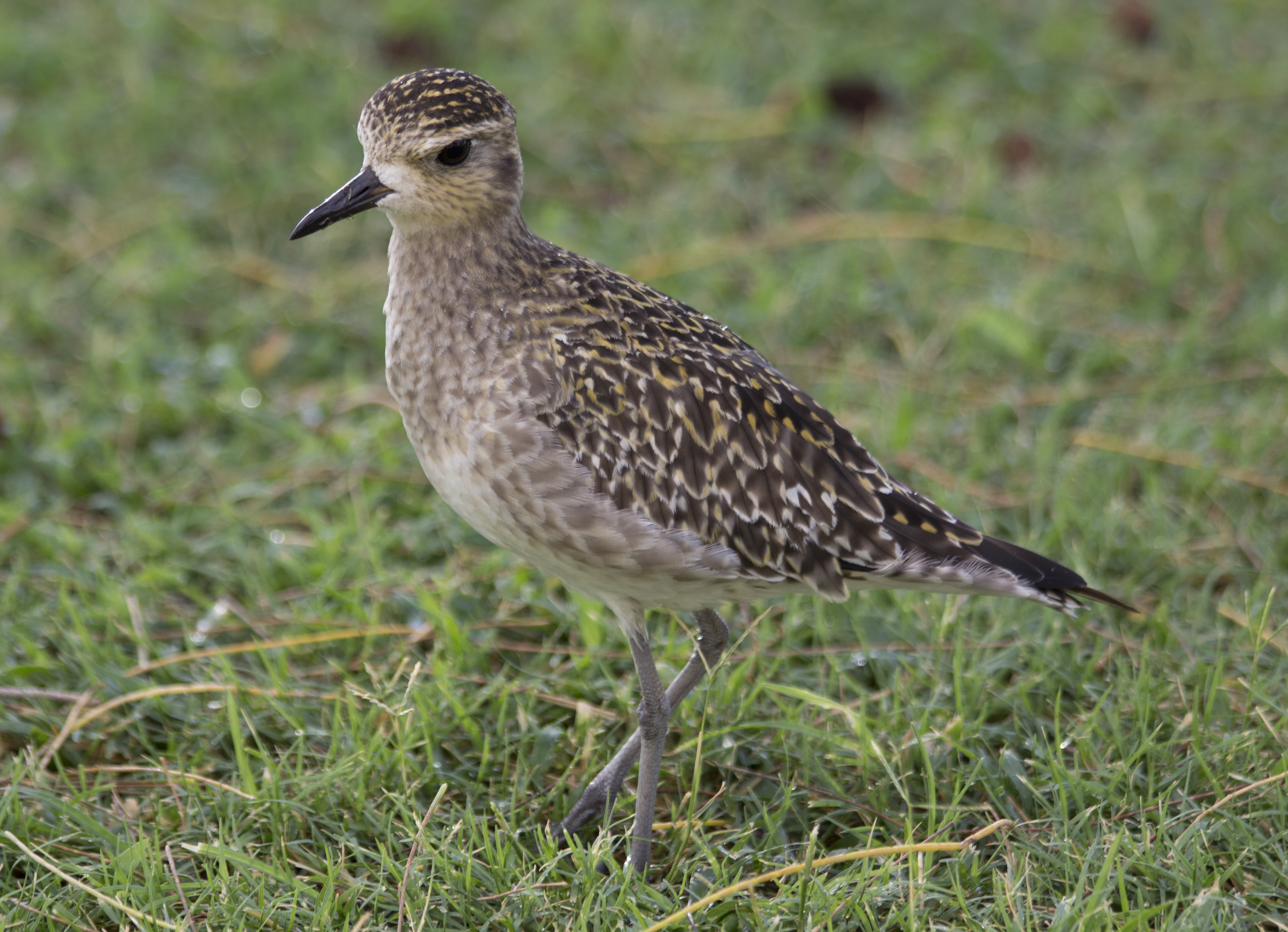 Photographed near Kapaa, Kauai, Hawaii.